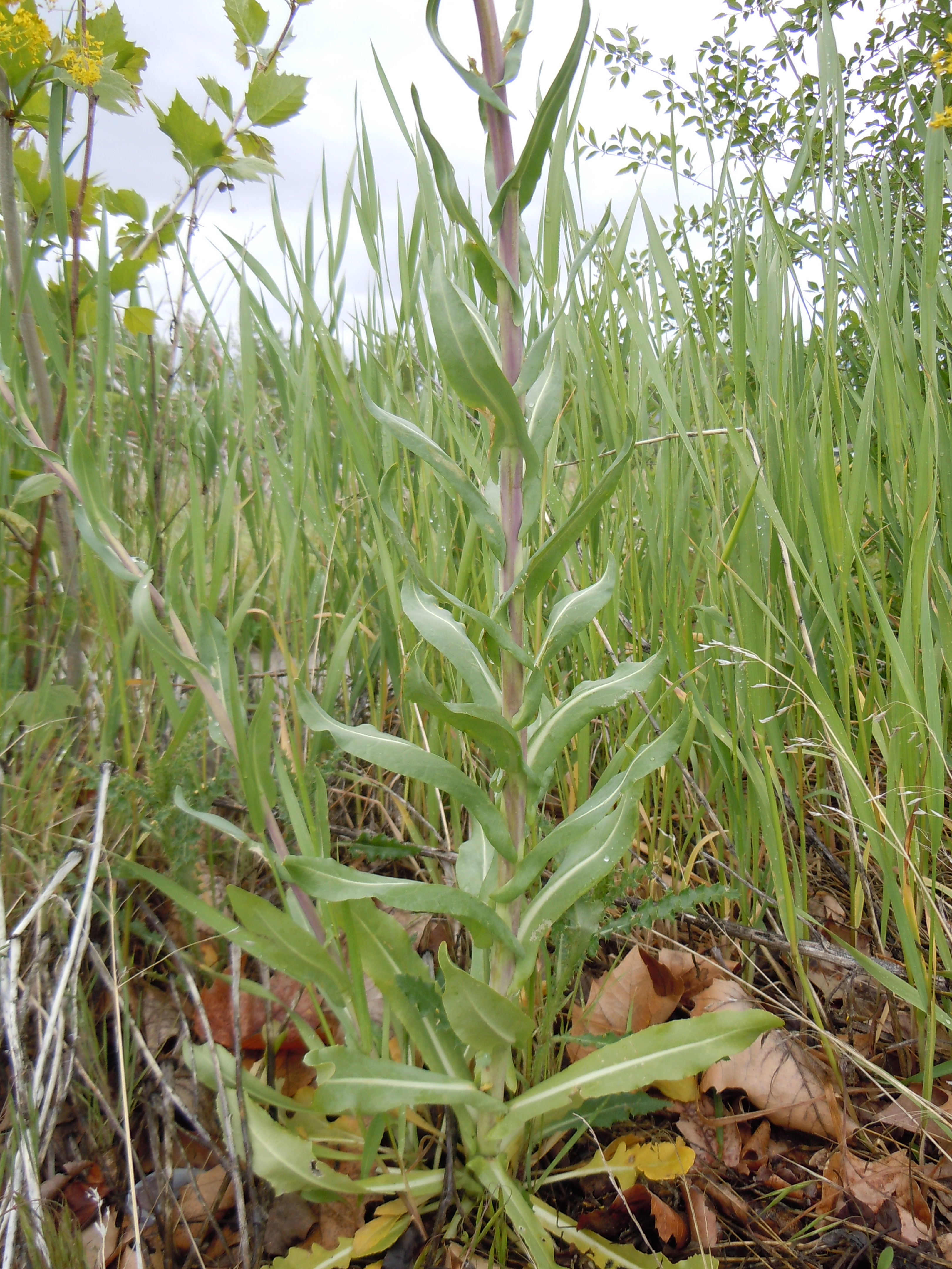 The glaucous stems and clasping leaves are diagnostic.